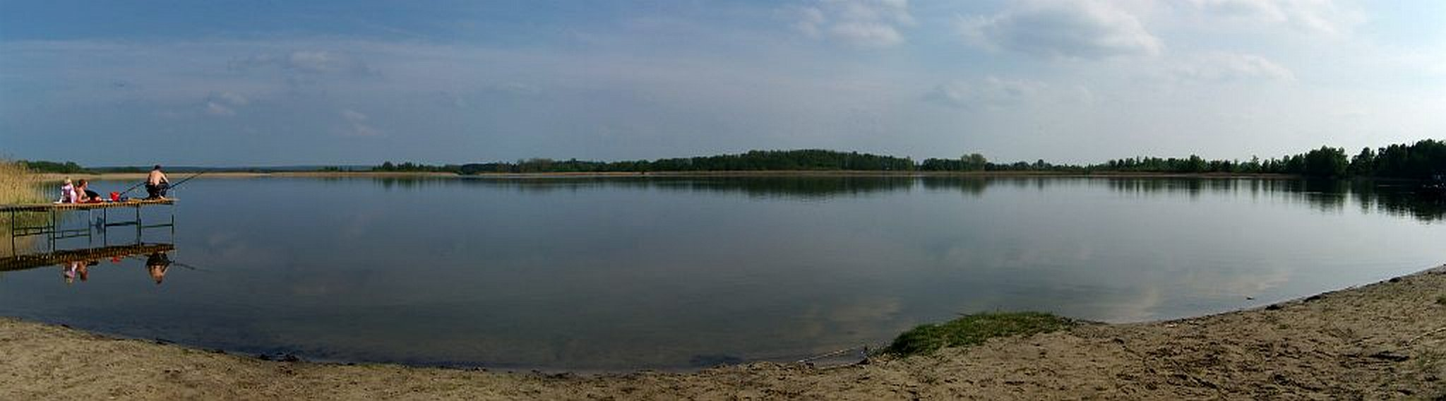 Brenno (Poland) - Jezioro Białe (White Lake)